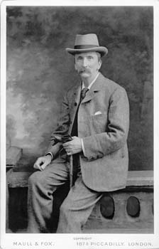 Repository GB 117 The Royal Society Level Item Ref No IM/Maull/001018 Object Name Photograph Alt Ref No Maull & Fox No 230211 ExportedMI No Artist Maull & Fox Title Cunningham, David Douglas Date nd Description Formal portrait, 3/4 length (seated Person Key Cunningham; David Douglas (1843 - 1914) Materials Black and white photograph Dimensions 150 x 100 mm